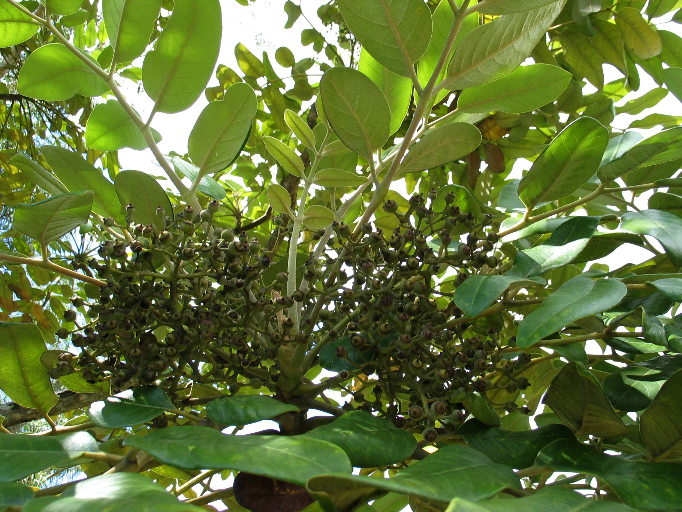 [syn. Tetraplasandra hawaiensis] ʻOhe or Hawaii ohe Araliaceae Endemic to the Hawaiian Islands Oʻahu (Cultivated) The fruits were used medicinally for babies. The mother would eat the fruits feed her baby through breast milk to cure pāʻaoʻao (childood disease, with physical weakneses) and ʻea (thrush) with no side effects. NPH00012